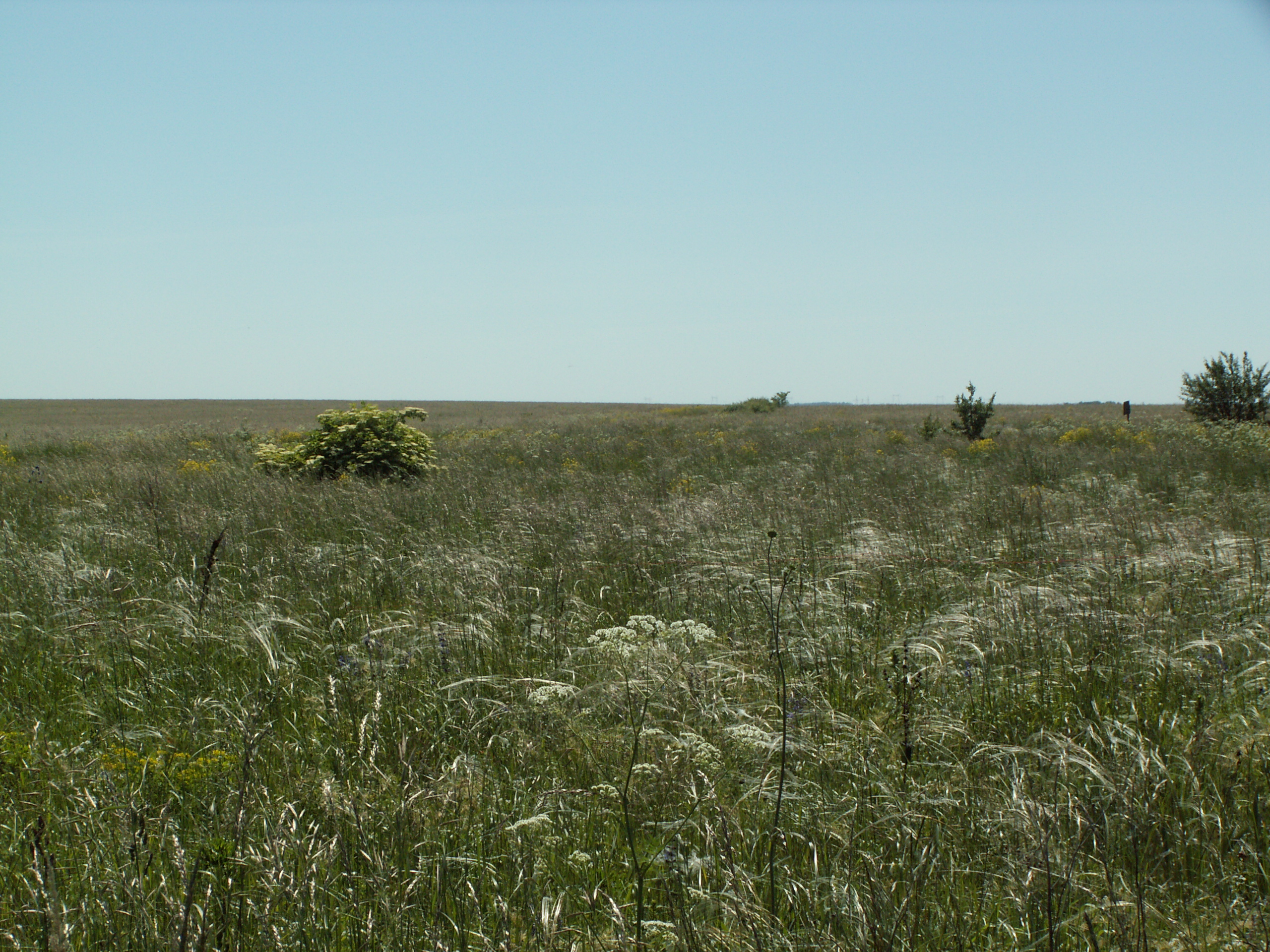 Kazackaya steppe in the Centralny Tschernozemny Zapovednik near Kursk, in the European part of Russia.